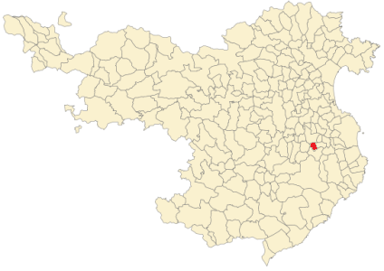 Rupià